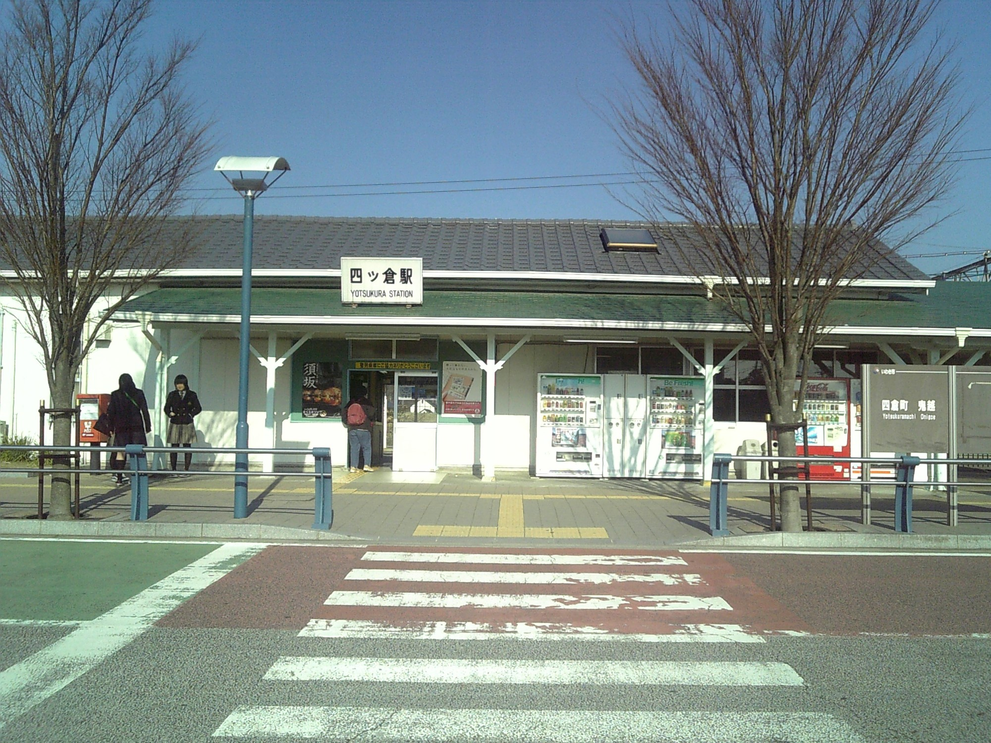 JR East Yotsukura Station